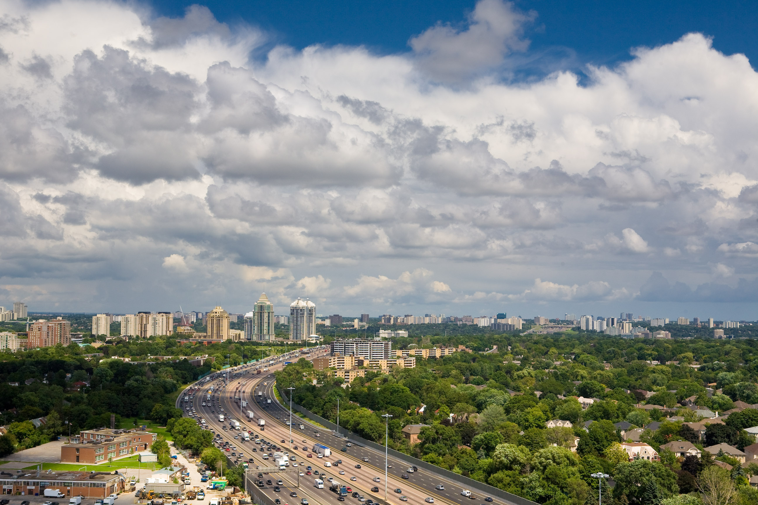 Average Afternoon on Highway 401